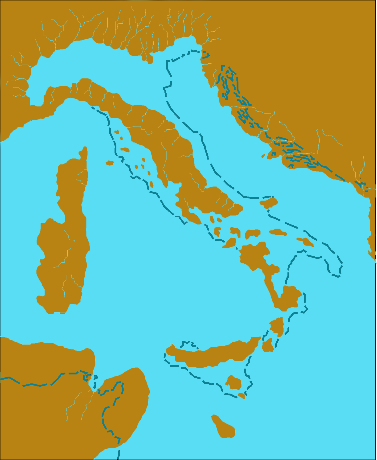 Adriatic Sea (Pliocene epoch)